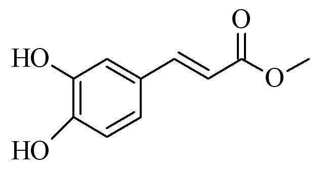 Chemical structure of methyl caffeate